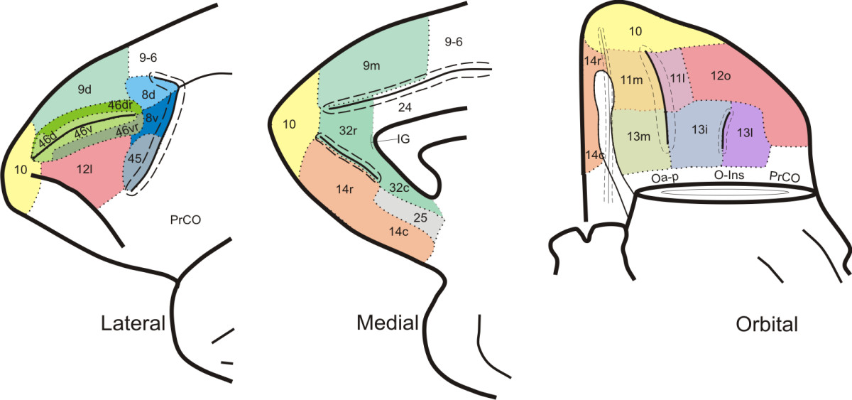 Brodmann areas of frontal cortex of monkey brain. Cebus apella.